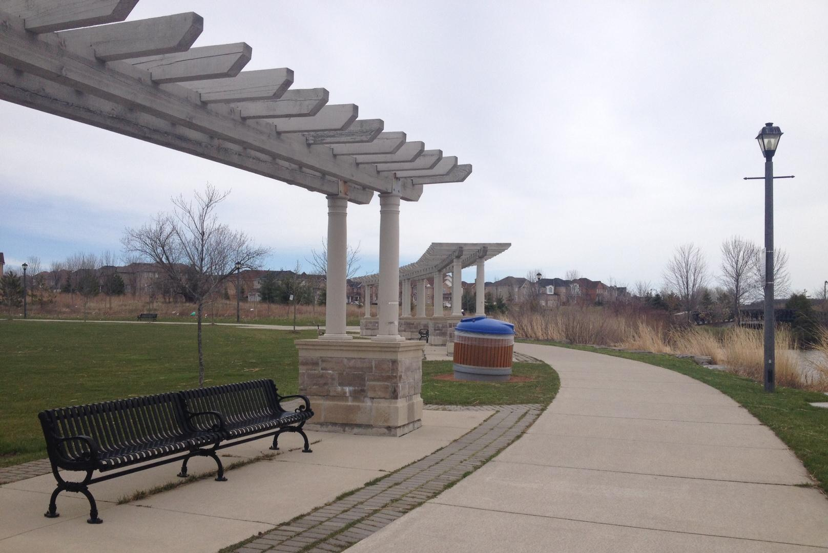 pathway at berczy park